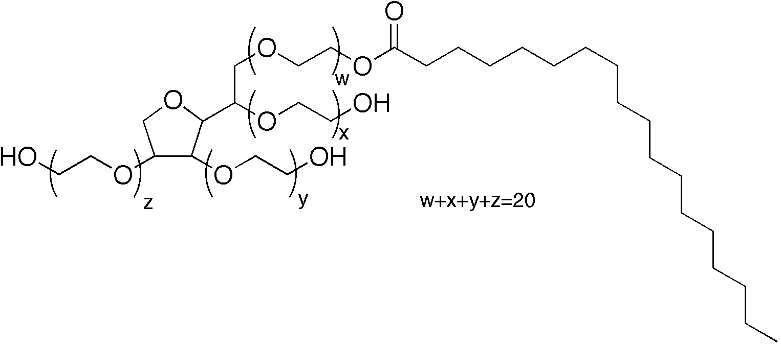 chemical structure of polysorbate 60 (Tween 60)